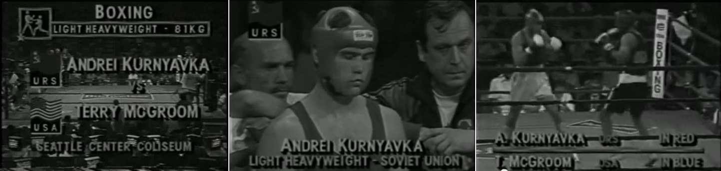 Финал игр Доброй воли Андрей Курнявка -- Терри Макгрум